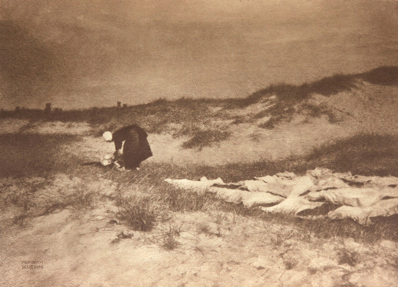 Washerwoman in the dunes, published in Camera Work 1906